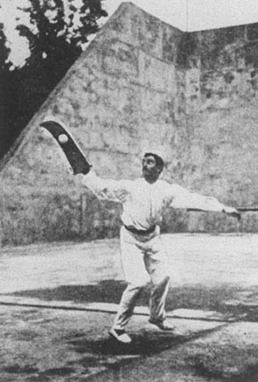 Pelota player at the 1900 Olympic Games photography, reproduction, no restrictions on use